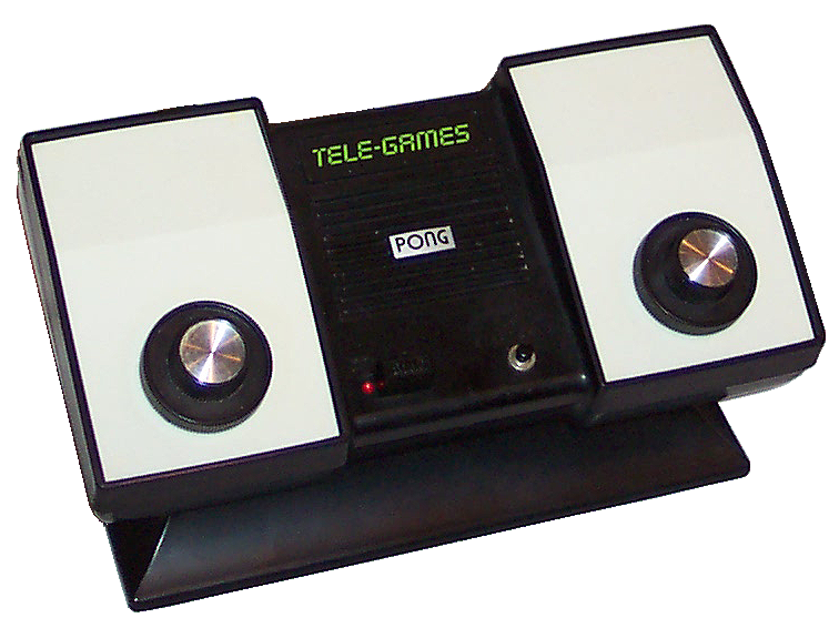 Atari's original Pong console, oem'd to Sears. Includes original 1975 Sears Catalog advertisement.